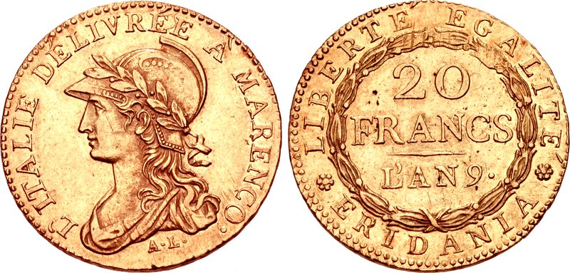 ITALY, Piemonte. Repubblica Subalpina. 1800-1801. AV 20 Francs – Marengo (22mm, 6.43 g, 5h). Torino (Turin) mint. Dated L’AN 9 (AD 1800). L'ITALIE DELIVRÉE À MARENGO Helmeted, laureate, and draped bust of Italia left Date and denomination within wreath. LIBERTÉ EGALITÉ. Below: ERIDANIA